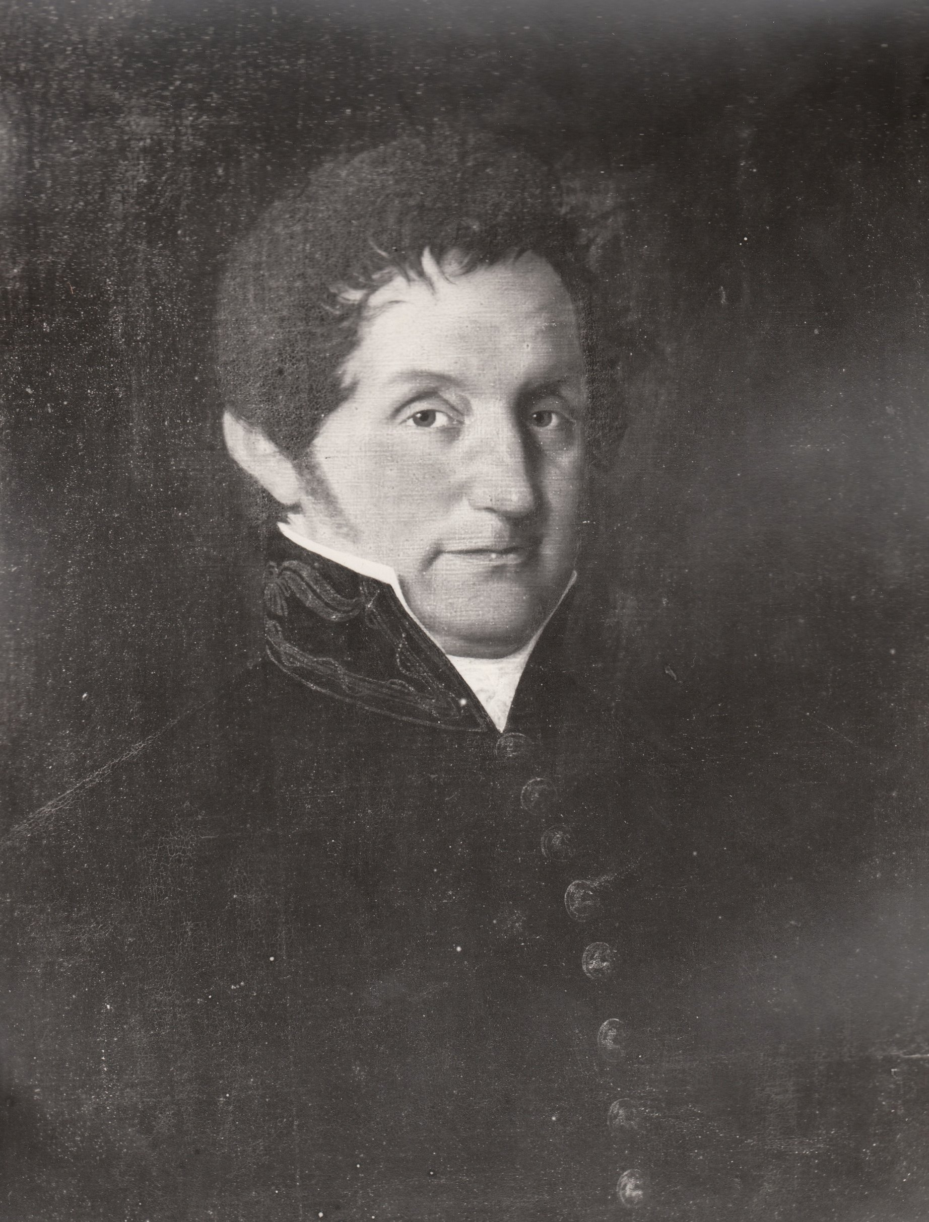 Painting of Hans Severin Fürst by Carl Peter Lehmann. Photographed by Erik Olsen in 1897 in connection with the exhibition Trondhjems 900-årsjubileum.